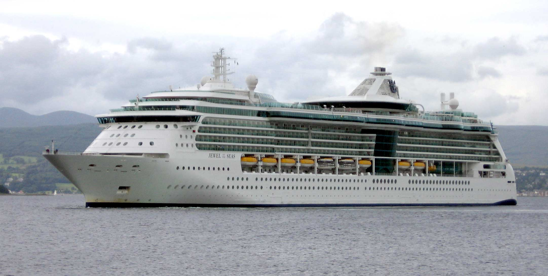 The Cruise ship Jewel of the Seas turning in the Firth of Clyde after leaving Clydeport Ocean Terminal, Greenock, Scotland, seen from the Esplanade at 6.28pm BST (5.28 UTC).